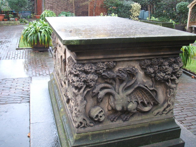 Tradescant tomb John Tradescant the Elder and his son,John, the Younger, both buried in what is now the Garden Museum, St Mary's Church, Lambeth Palace Road. Both men were great plant hunters and gardeners